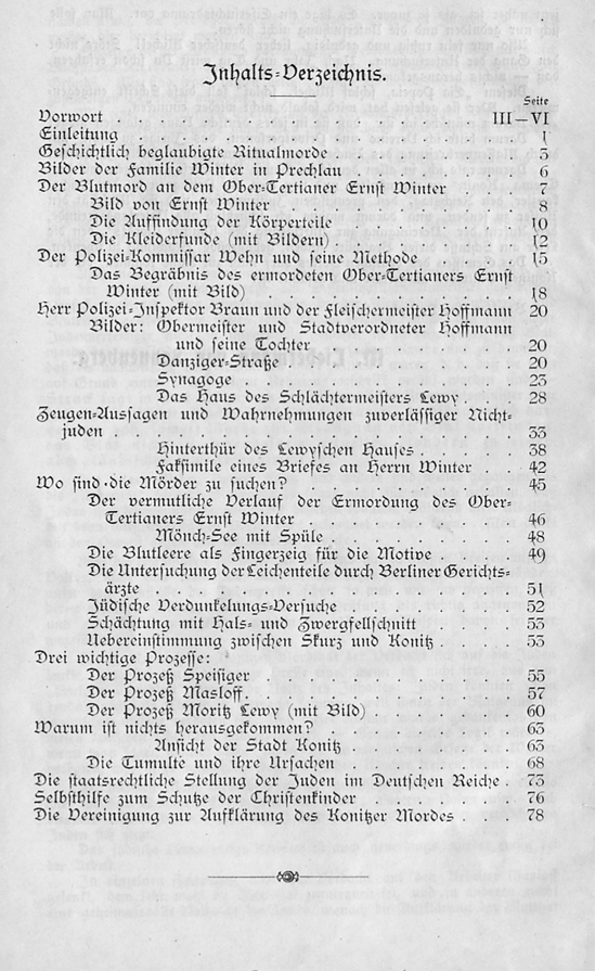 A page of the book "Der Blutmord in Konitz".